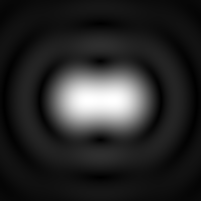 Airy disks of two point light-sources seen through a round aperture. The distance of the two sources matches the dawes-criterion (also called Dawes' limit) d = λ sin ⁡ α {\displaystyle d={\frac {\lambda }{\sin \alpha } The brightness of the color shows the square-root of the intensity, since the patterns could hardly be seen at a linear scale.